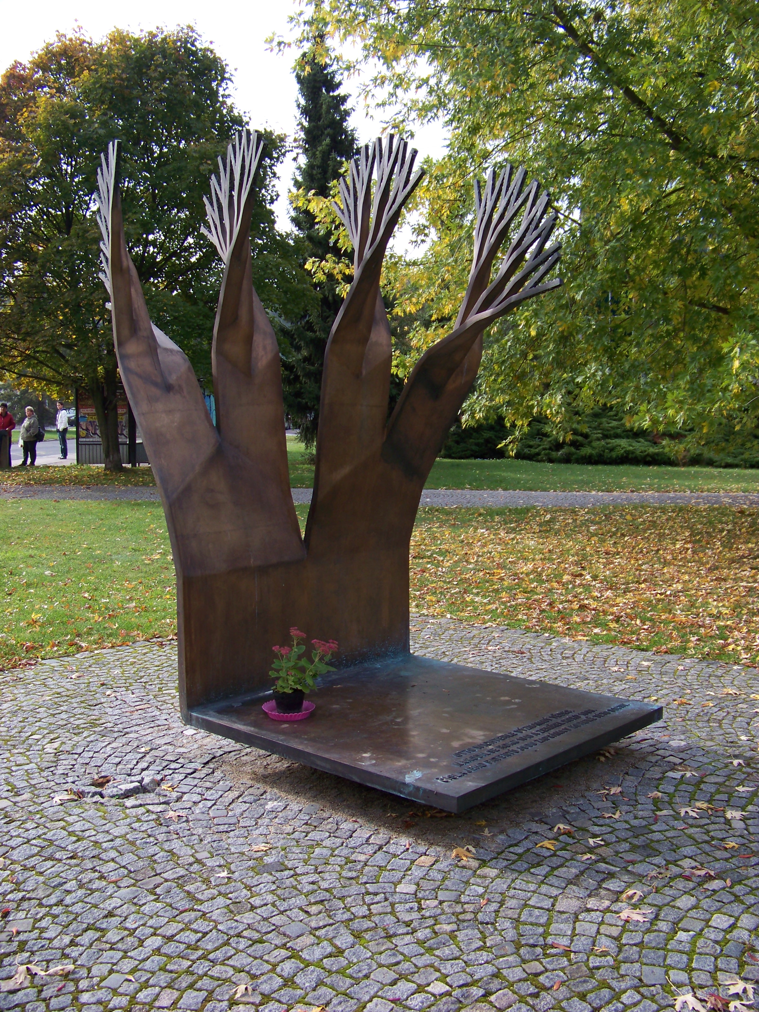 Prague-Břevnov, the Czech Republic. Petřiny, a monument to Otto Wichterle, Heyrovského Square 1888/2, Institute of Macromolecular Chemistry.